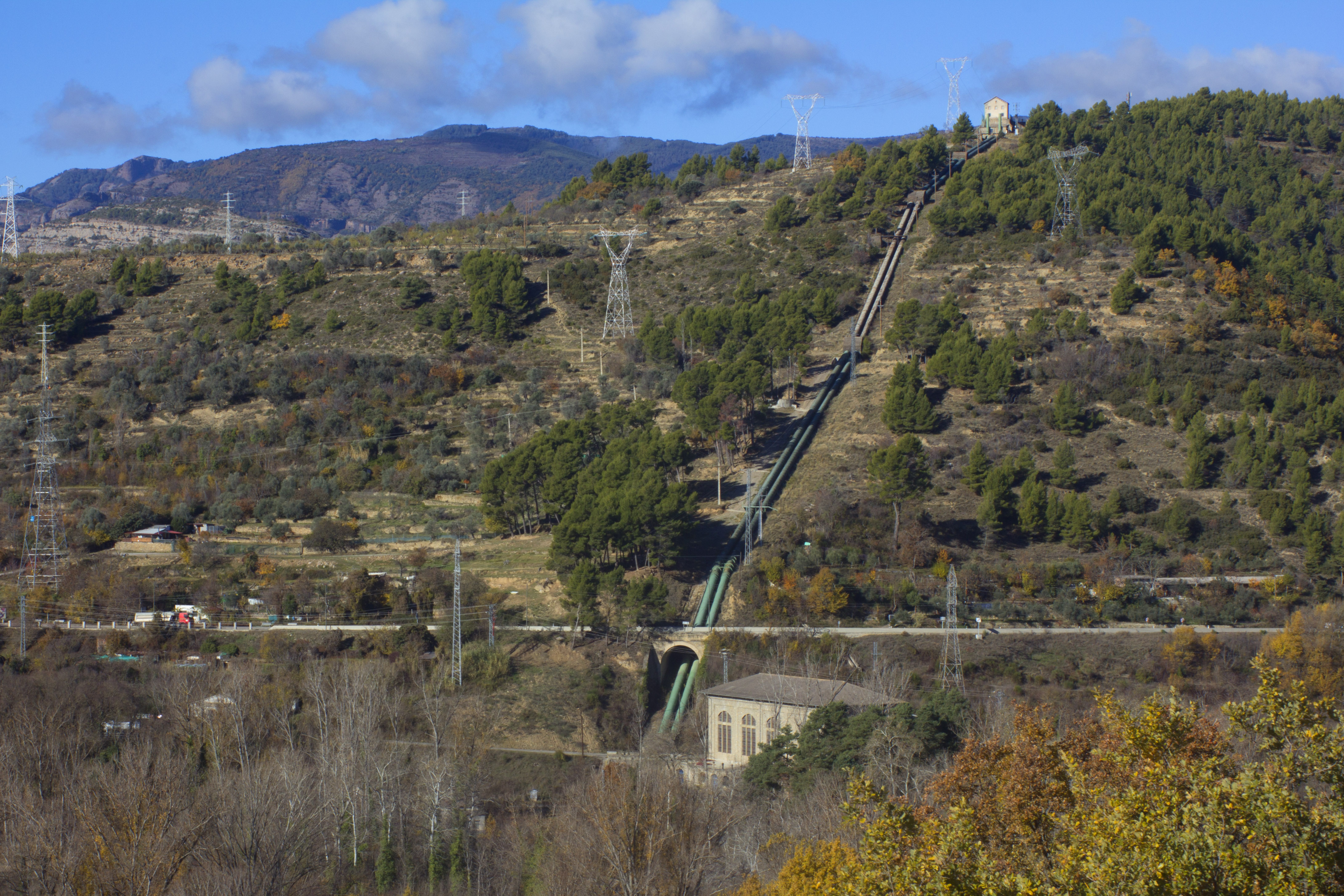 General view of Pobla de Segur hydropower plant: valve chamber, air pipes, penstocks and turbines room (Catalonia)